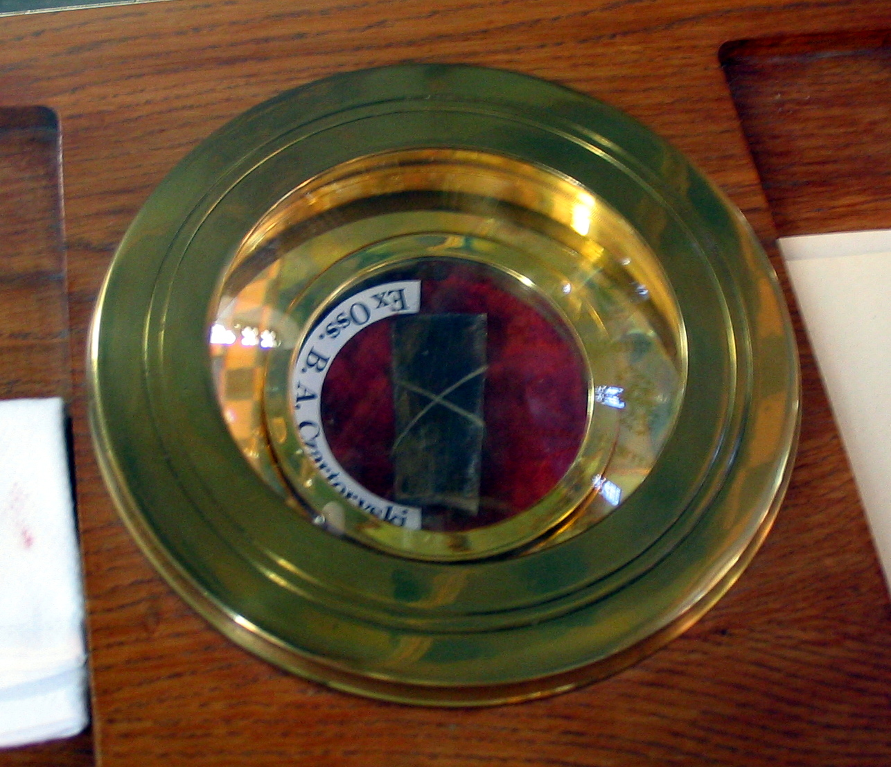 Relics of August Czartoryski in Salesians Church in Przemyśl, Poland